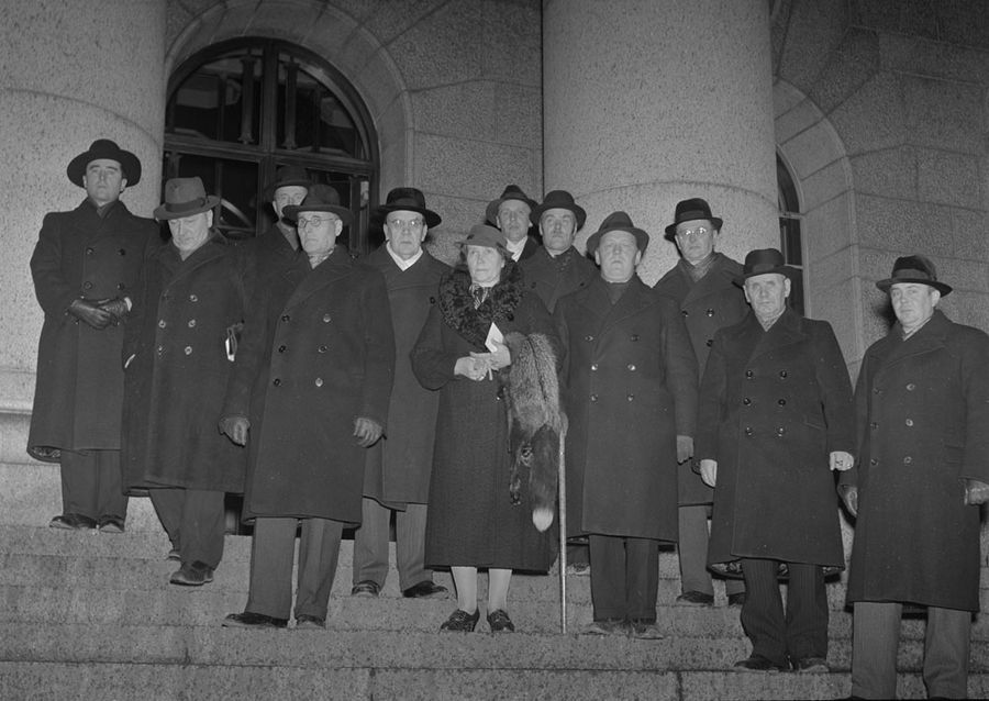 IKL's parliamentary group on the stairways to the parliament during the discussion about putting an end to it. In the middle "Terrible Hilja" Riipinen, furthest to the left Elias Simojoki.